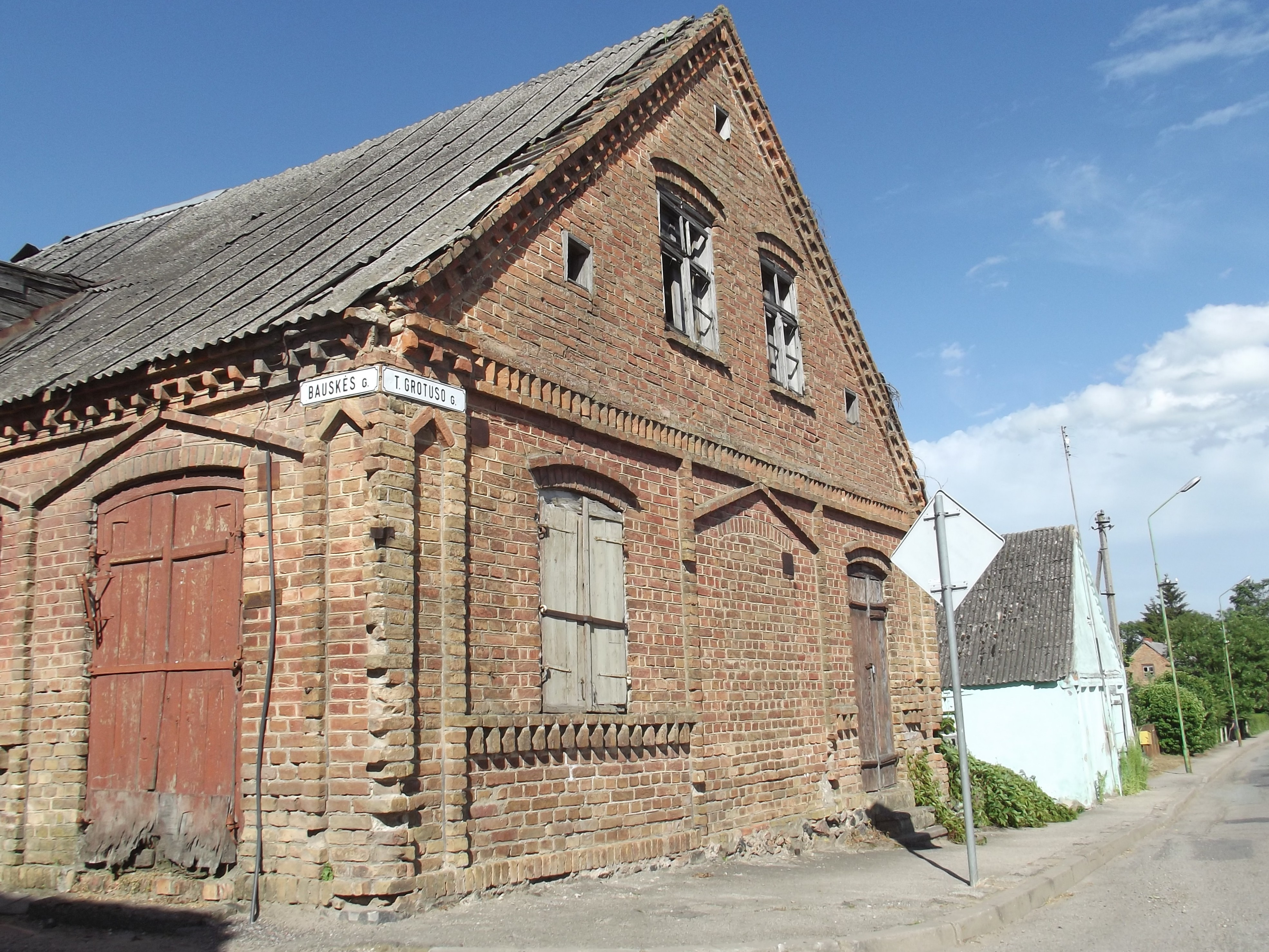 Street named after Theodor Grotthuss in Žeimelis, Pakruojis district. Lithuania